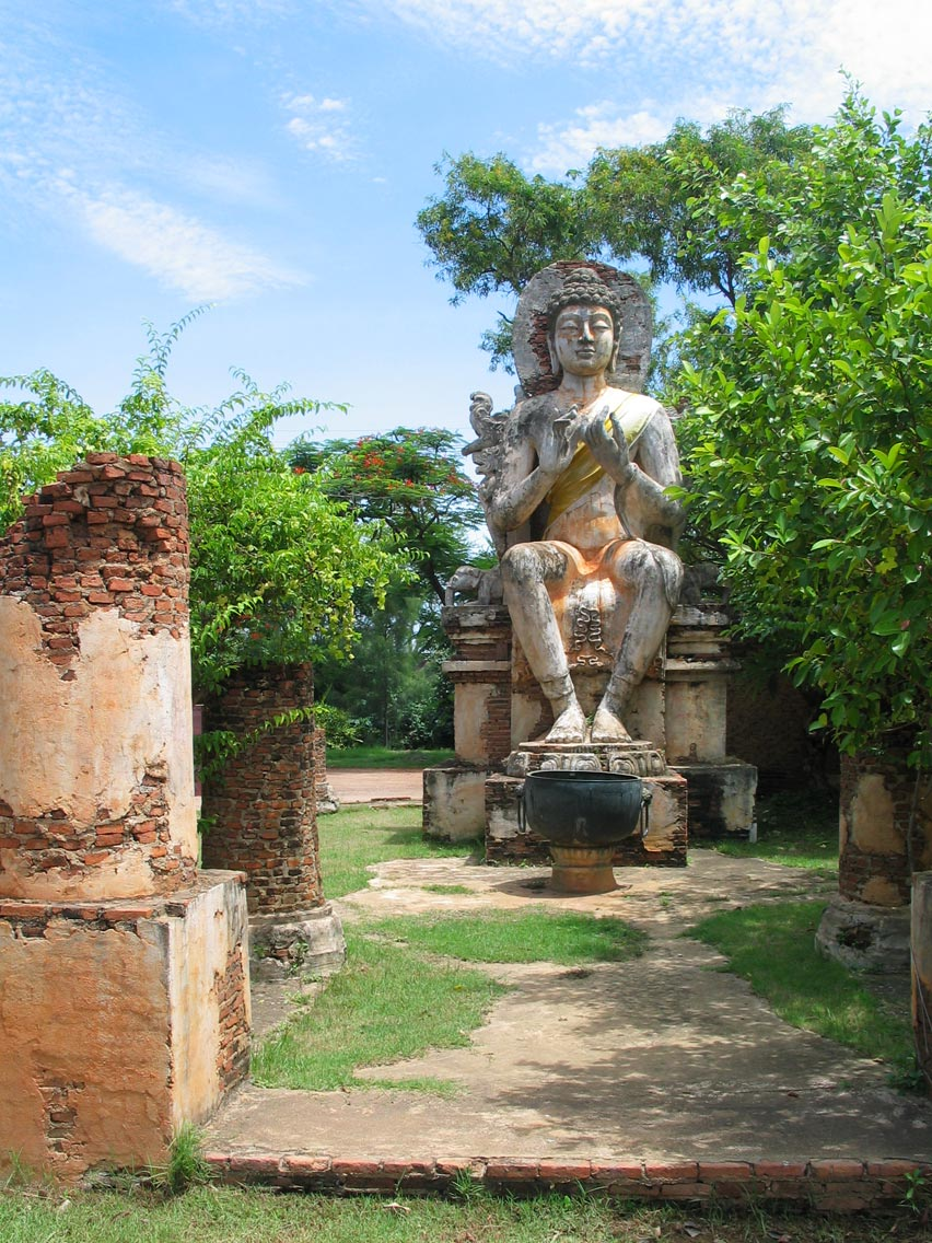 Sitting Buddha, Setting the Wheel of Law in motion, Dvaravati style, Muang Boran (Ancient City), Samut Prakan, Thailand